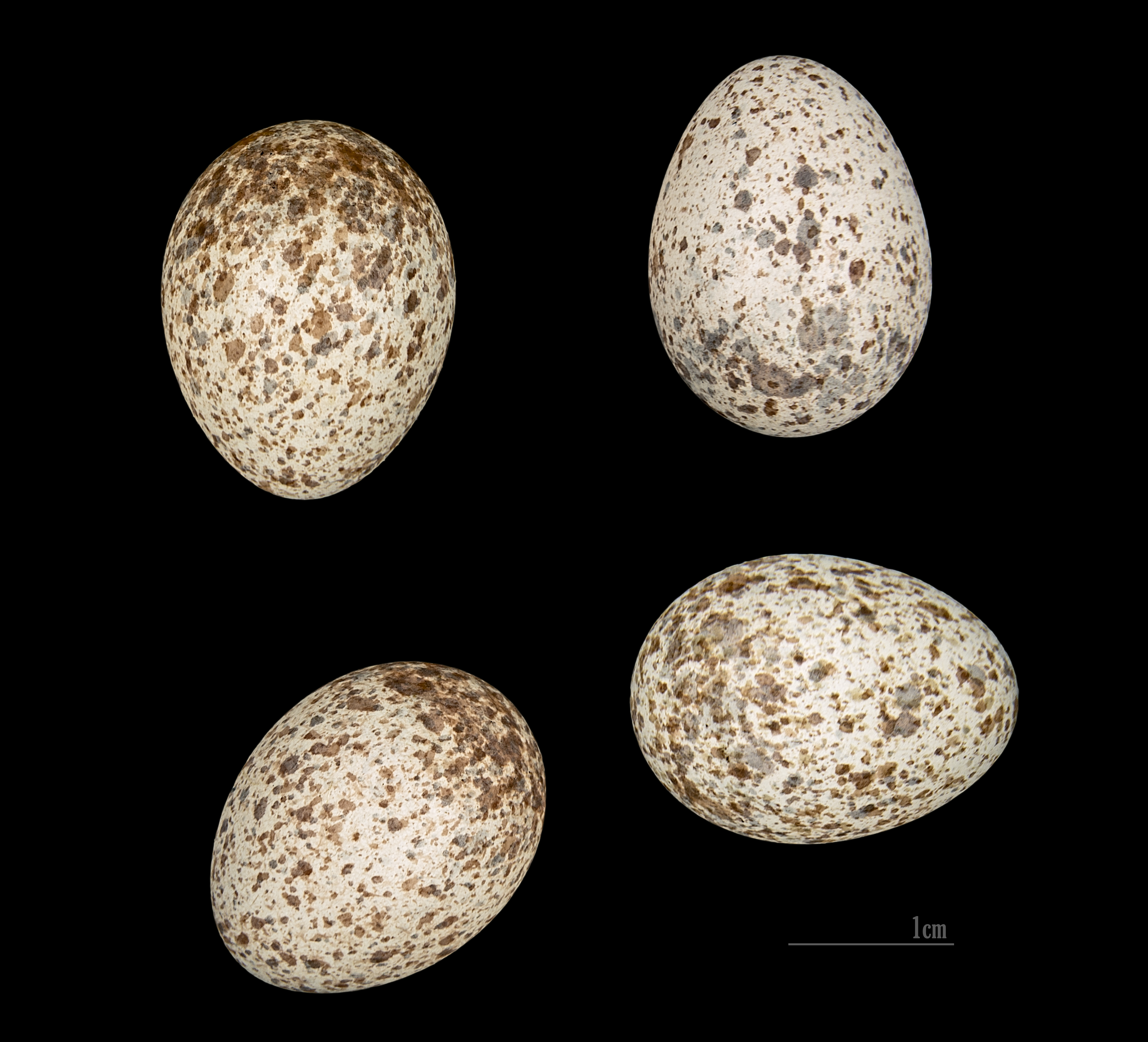 Egg of Crested Lark. Collection of Jacques Perrin de Brichambaut.